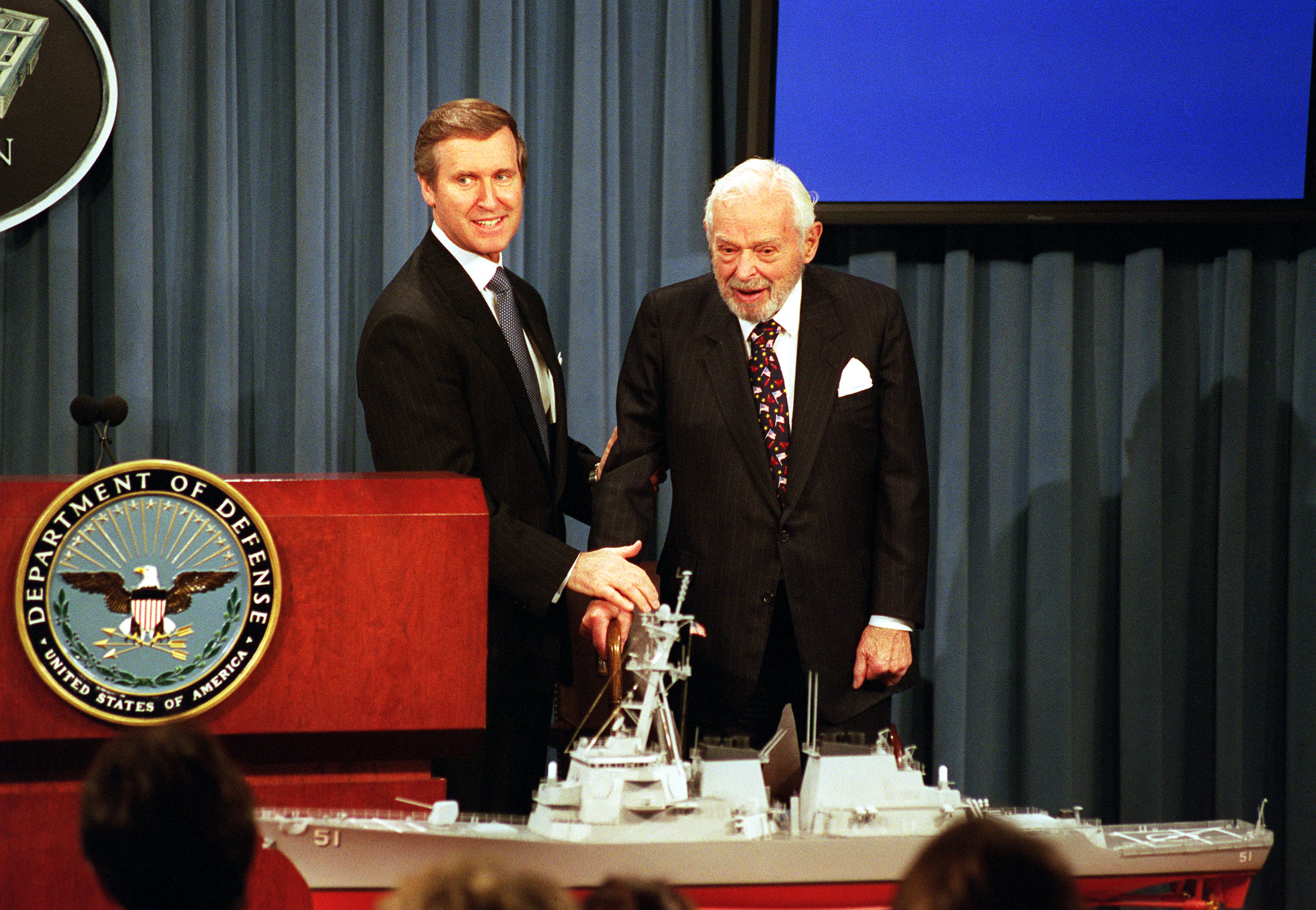 Pentagon, Arlington, Va. (Jan. 10, 2001) -- Former Secretary of the Navy Paul H. Nitze (right) and Secretary of Defense William S. Cohen look at a model of an Arleigh Burke-class guided missile destroyer at a Pentagon press conference, following the announcement that a destroyer will be named in honor of Nitze. USS Nitze (DDG 94), which is due to join the fleet in 2004, is a multi-mission ship equipped with the Navy's AEGIS combat weapons system, and operates in support of carrier battle groups, surface action groups, and amphibious groups. Guided missile destroyers primarily perform anti-submarine, anti-air and anti-surface warfare roles. DoD photo by R. D. Ward. (RELEASED).